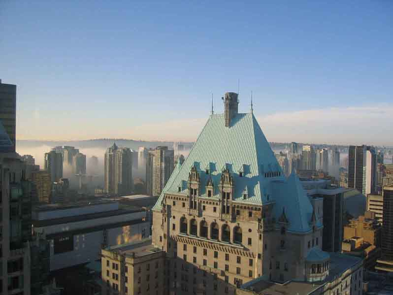 Fog in the city, Vancouver B.C. - Canada, 2005